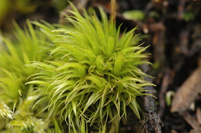 Picture taken in Commanster, Belgian High Ardennes . Species: Dicranum scoparium